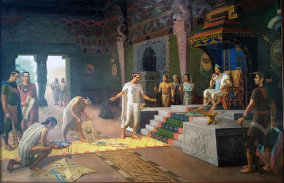 Moctezuma's messengers